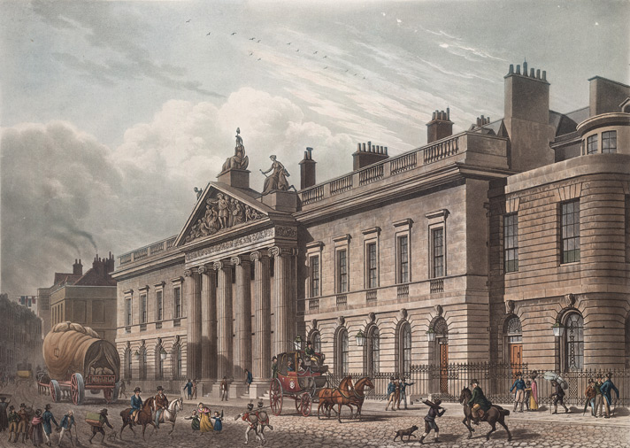 Artist: Shepherd, Thomas Hosmer Shepherd Medium: Aquatint, coloured Date: 1817 The East India Company was founded in 1600. The Company moved its London headquarters to Craven House in Leadenhall Street in 1648 on leasehold, and eventually purchased the building in 1710. East India House was reconstructed in the 1720s using the site of Craven House and neighbouring properties, and the new building designed by Theodore Jacobsen was finished in 1729. This picture represents the final reconstruction of East India House in the late 1790s with a new building on an extended site designed by Richard Jupp. A central portico of six ionic fluted columns supports a pediment decorated with sculptures representing His Majesty extending a shield over the commerce of the company. A statue of Britannia crowns the top, with a statue of Asia to the east and one of Europe to the west.